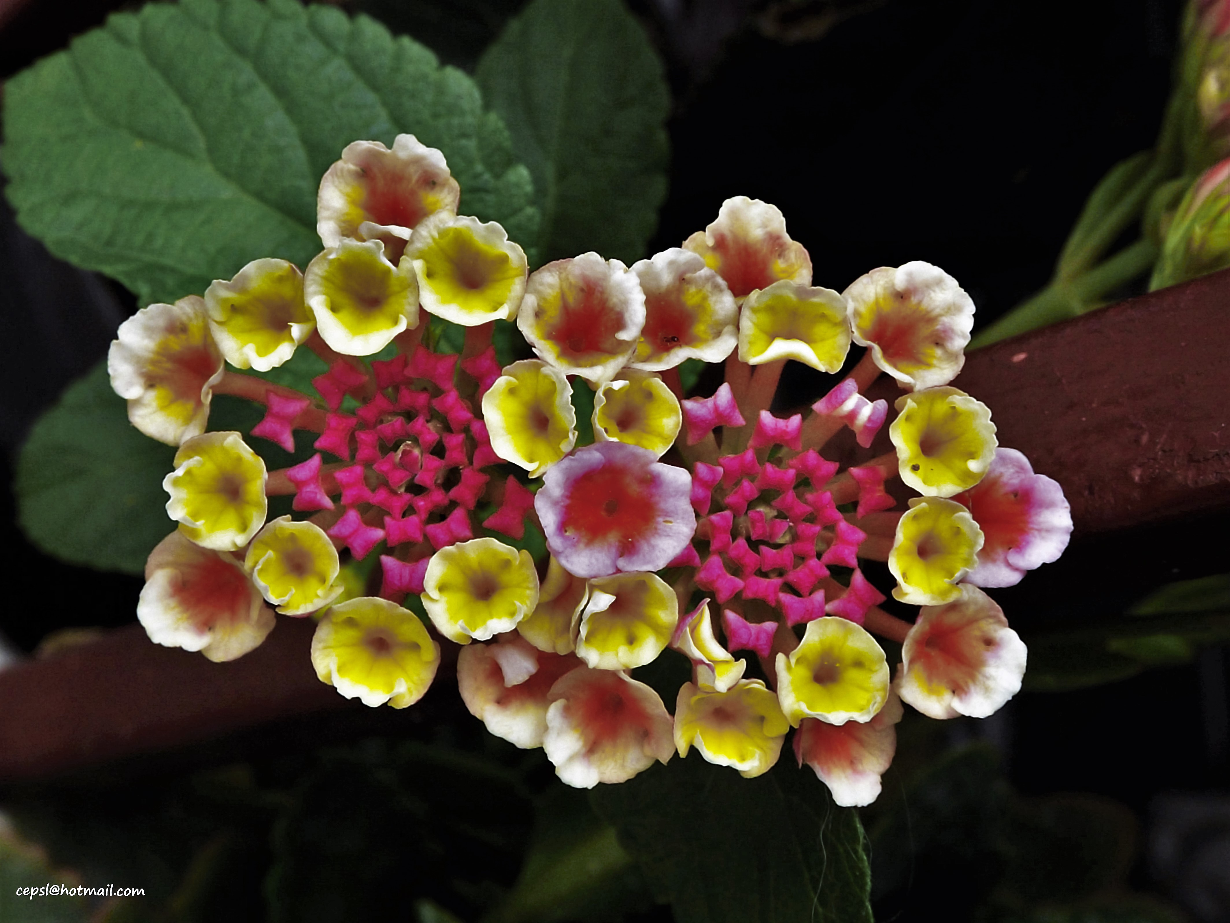 Lantana trifolia